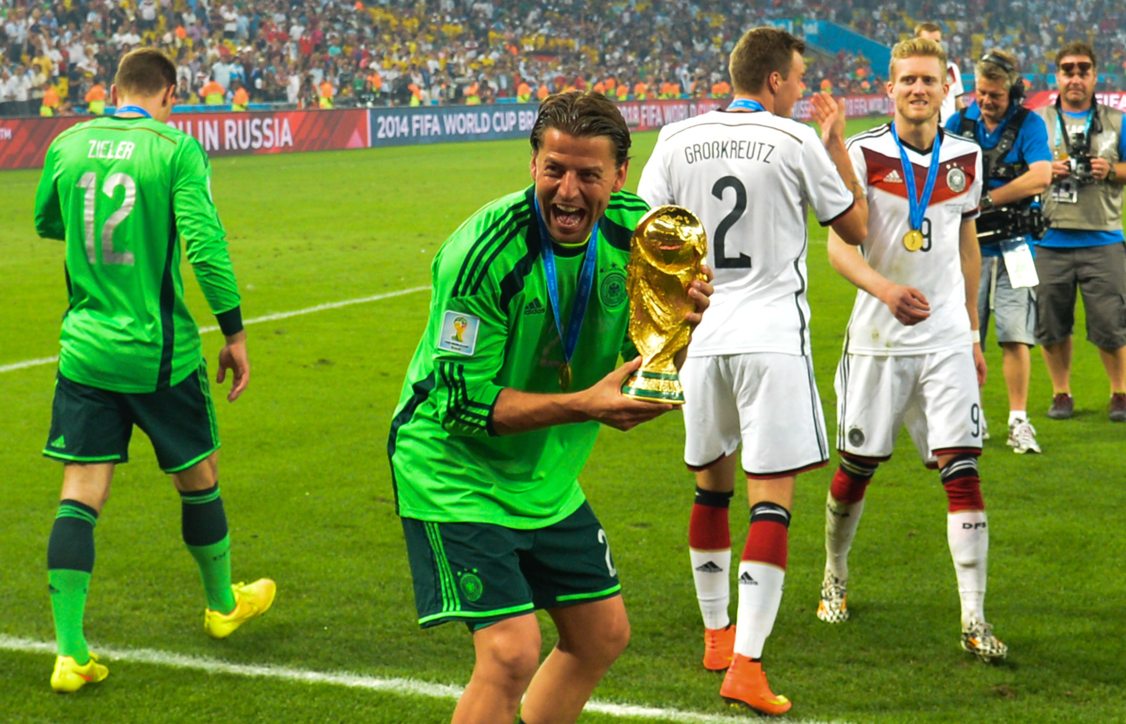 Award ceremony of the World Cup in Brazil